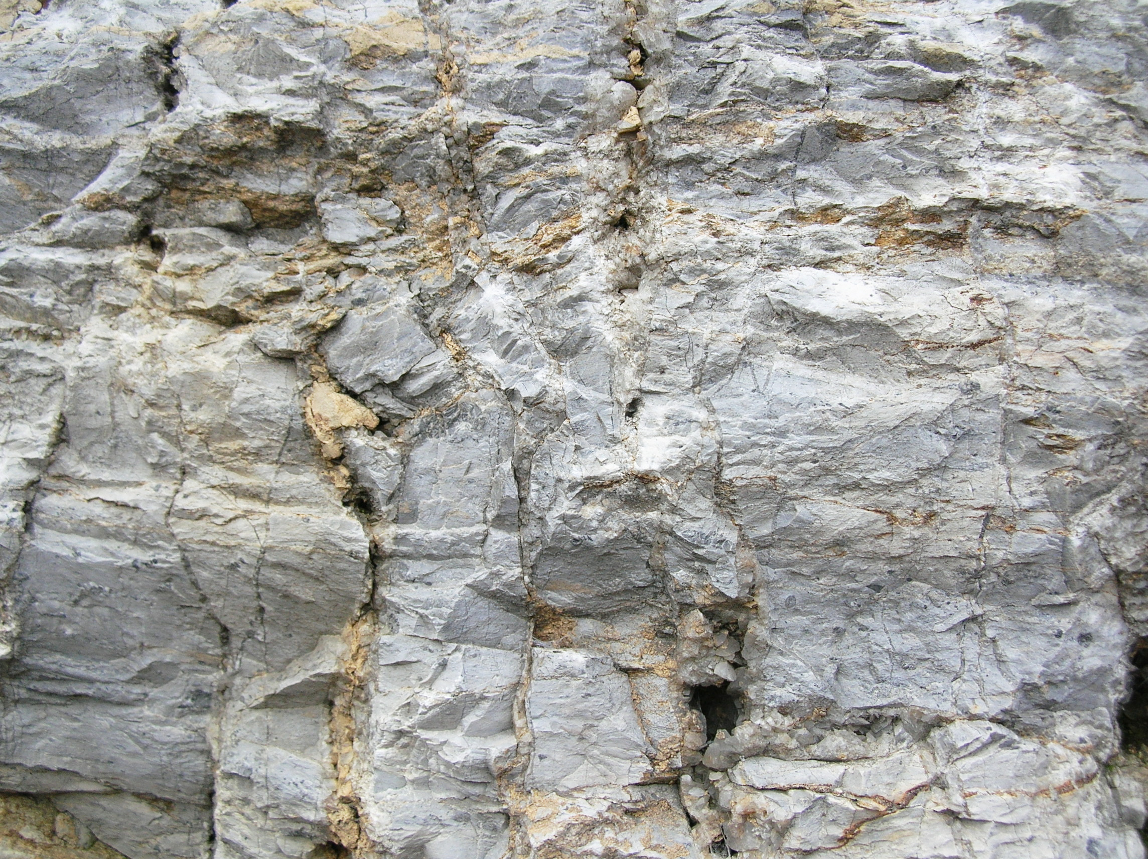 Dolomite rock：CaMg(CO3)2, CaCO3+2NaCl→CaCl2+Na2CO3 Jin-yama,Kesennuma-city,Miyagi-prefecture,Japan